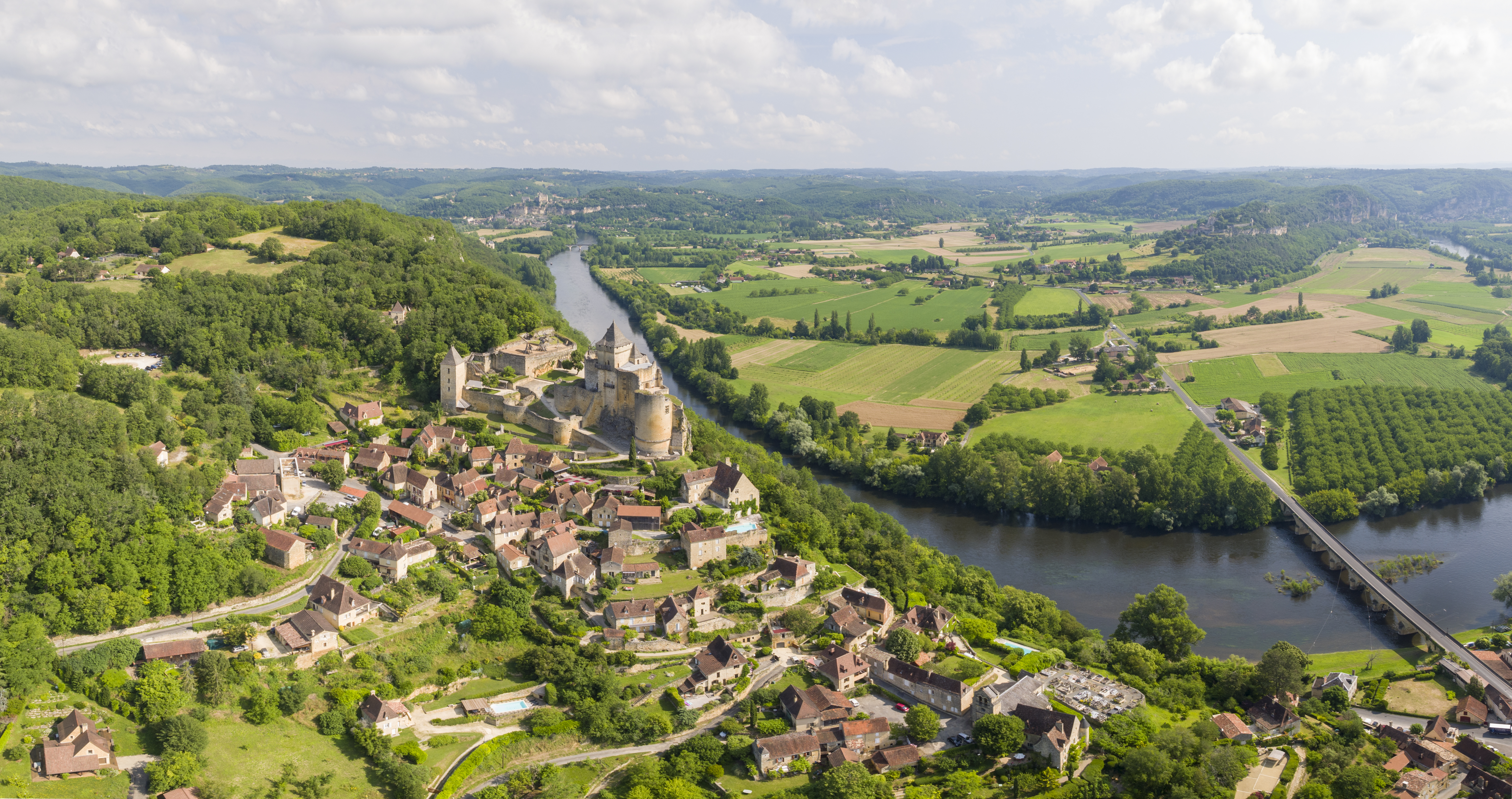 aerial panorama Castelnaud-la-Chapelle 2016 dordogne